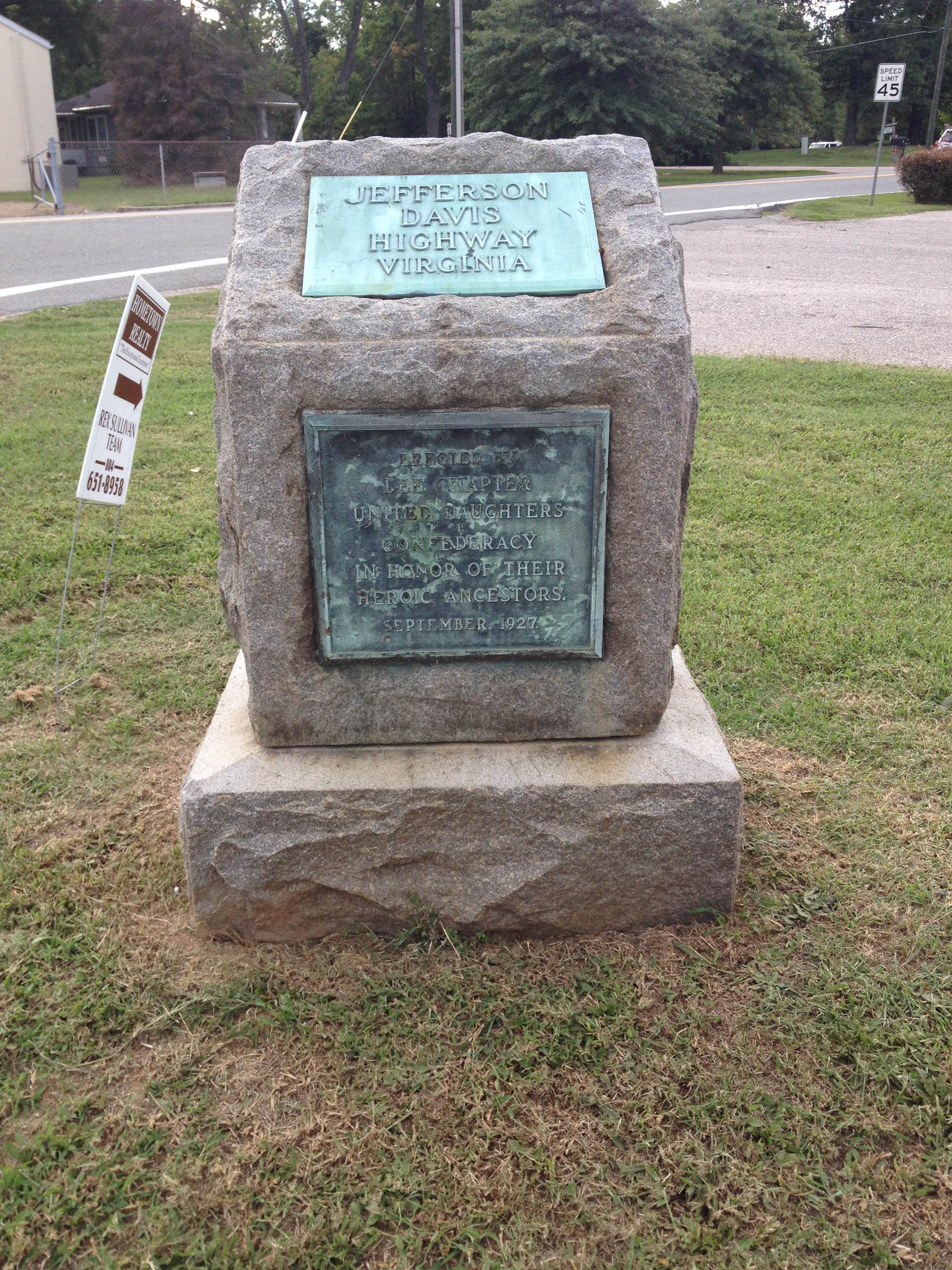 Ashland UDC Jefferson Davis Highway Marker, Junction of Cedar Lane